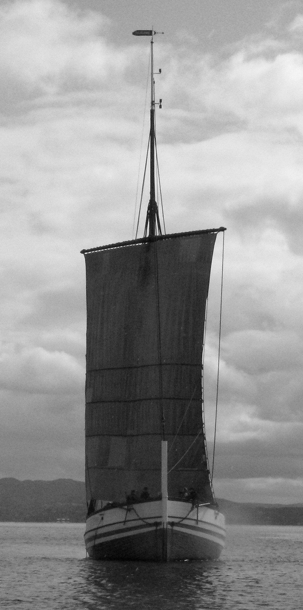 Norwegian boat Pauline, boat type Jekt, sailing near Inderøy in Nord-Trøndelag, Norway